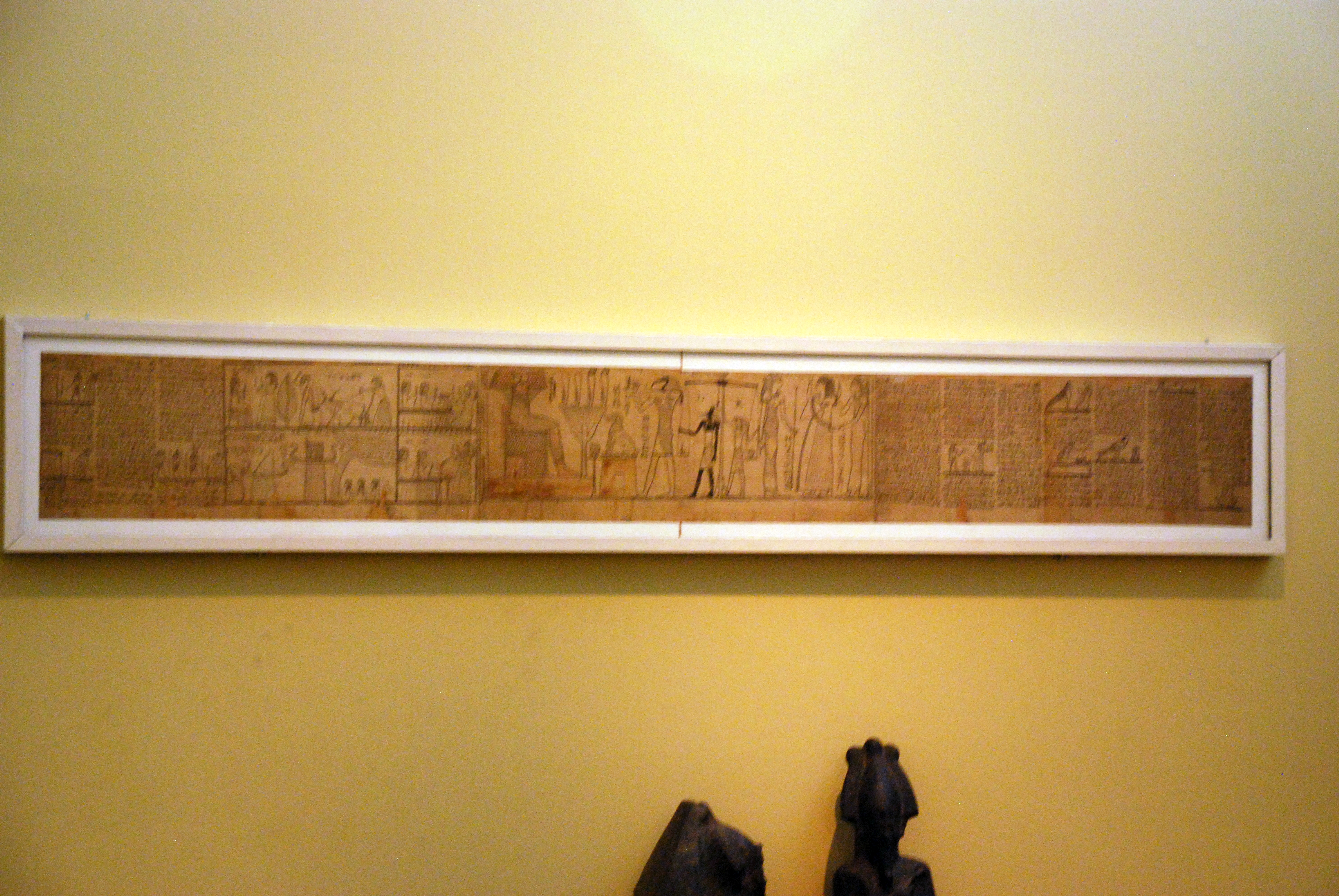 Papyrus with the Book of the Dead of Amun singer Nehem-es-Rataui in hieratic letters; ptolemaic, from Thebes; today in the Museum August Kestner in Hanover. Database link